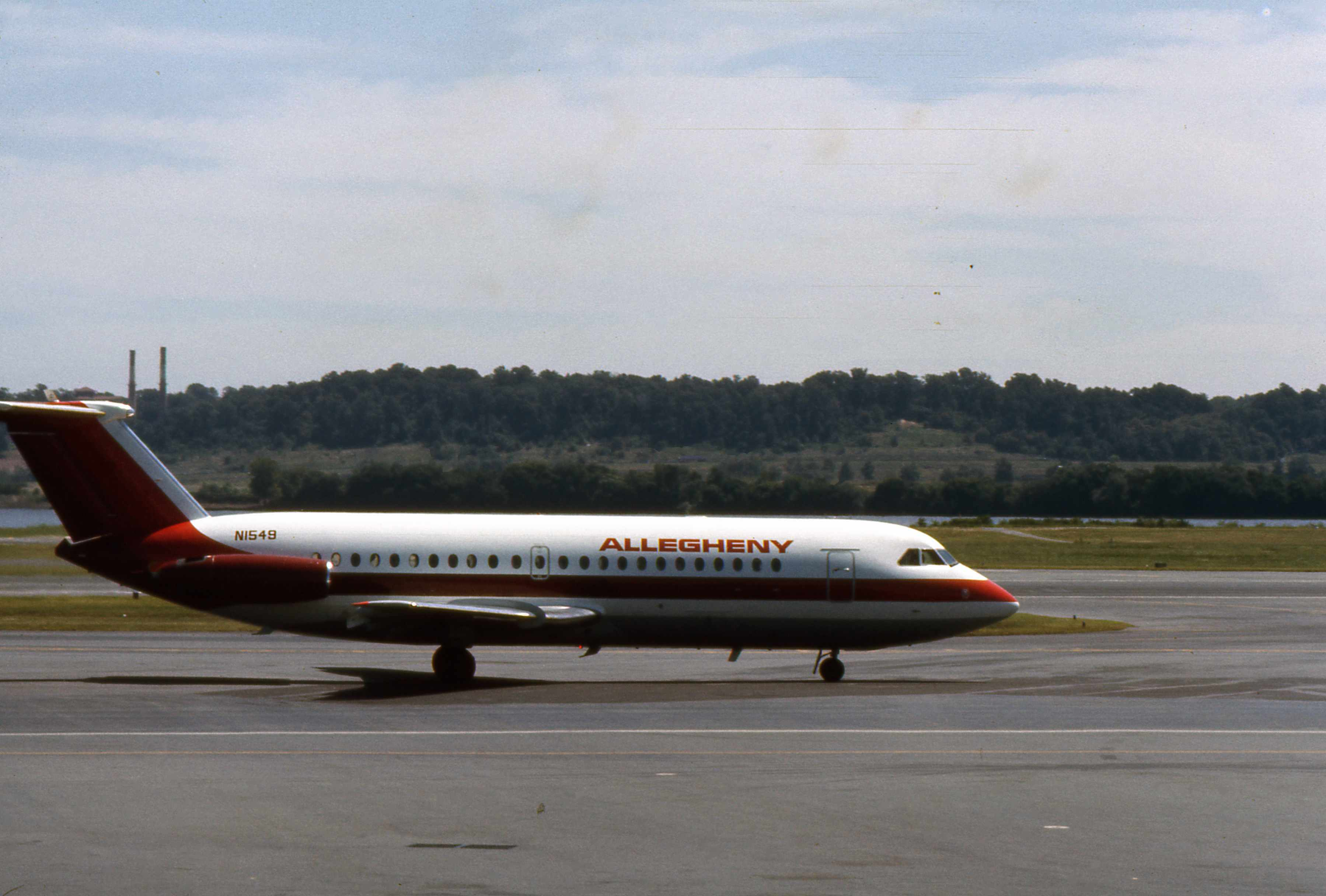 First flight on September 20, 1965 and delivered to Braniff International Airways on September 29, 1965. Sold to Allegheny Airlines on April 17, 1972 and on October 29, 1978 Allegheny renamed USAir. On June 28, 1985 was sold to Florida Express that merged in Braniff in 1988. Sold to Guinness Peat Aviation as EI-BWP, leased to ADC Airlines as 5N-AVY and broken up in July 1996.